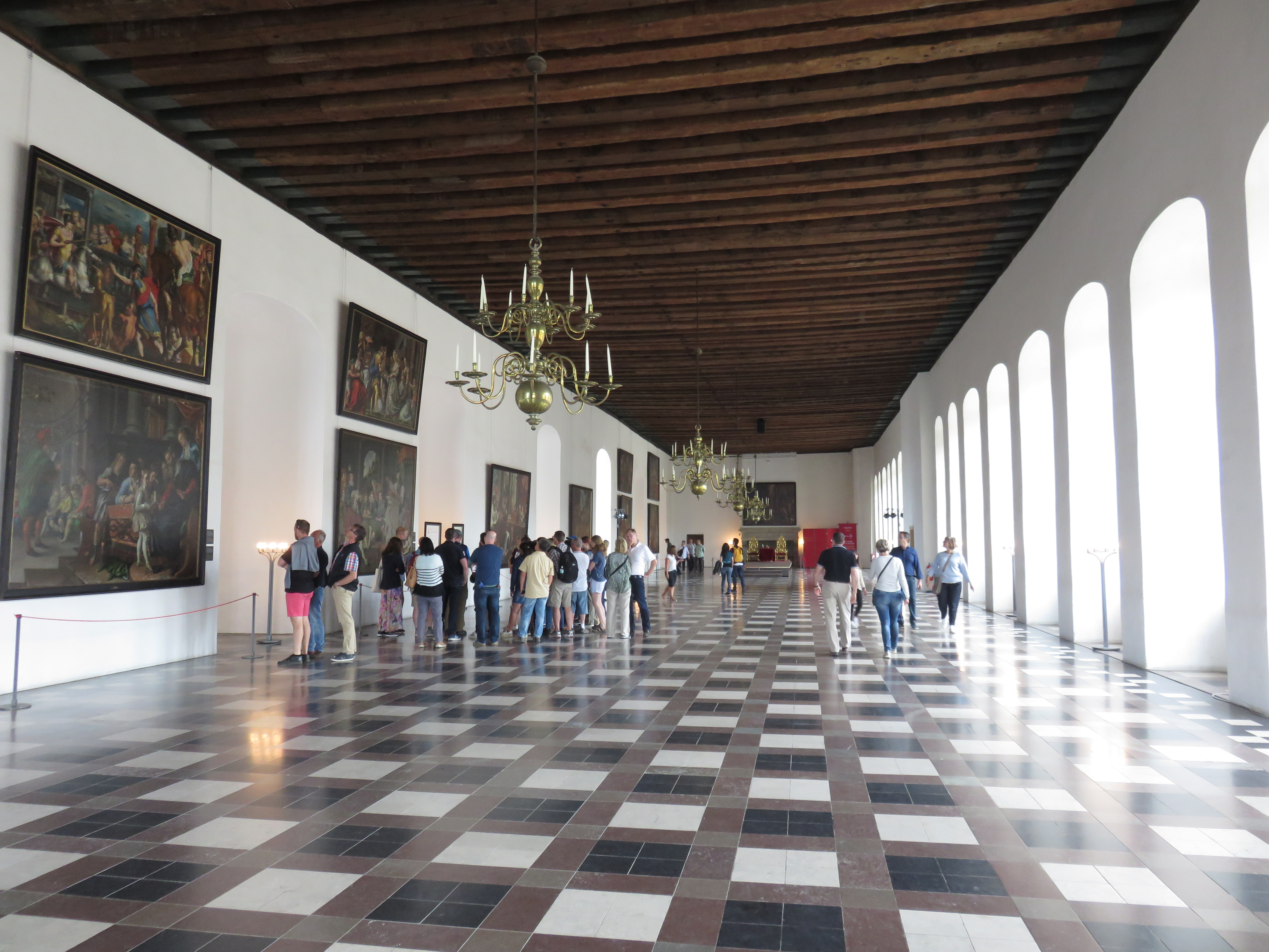 Great Ballroom in Kronborg Castle, Helsingør, Denmark in 2018